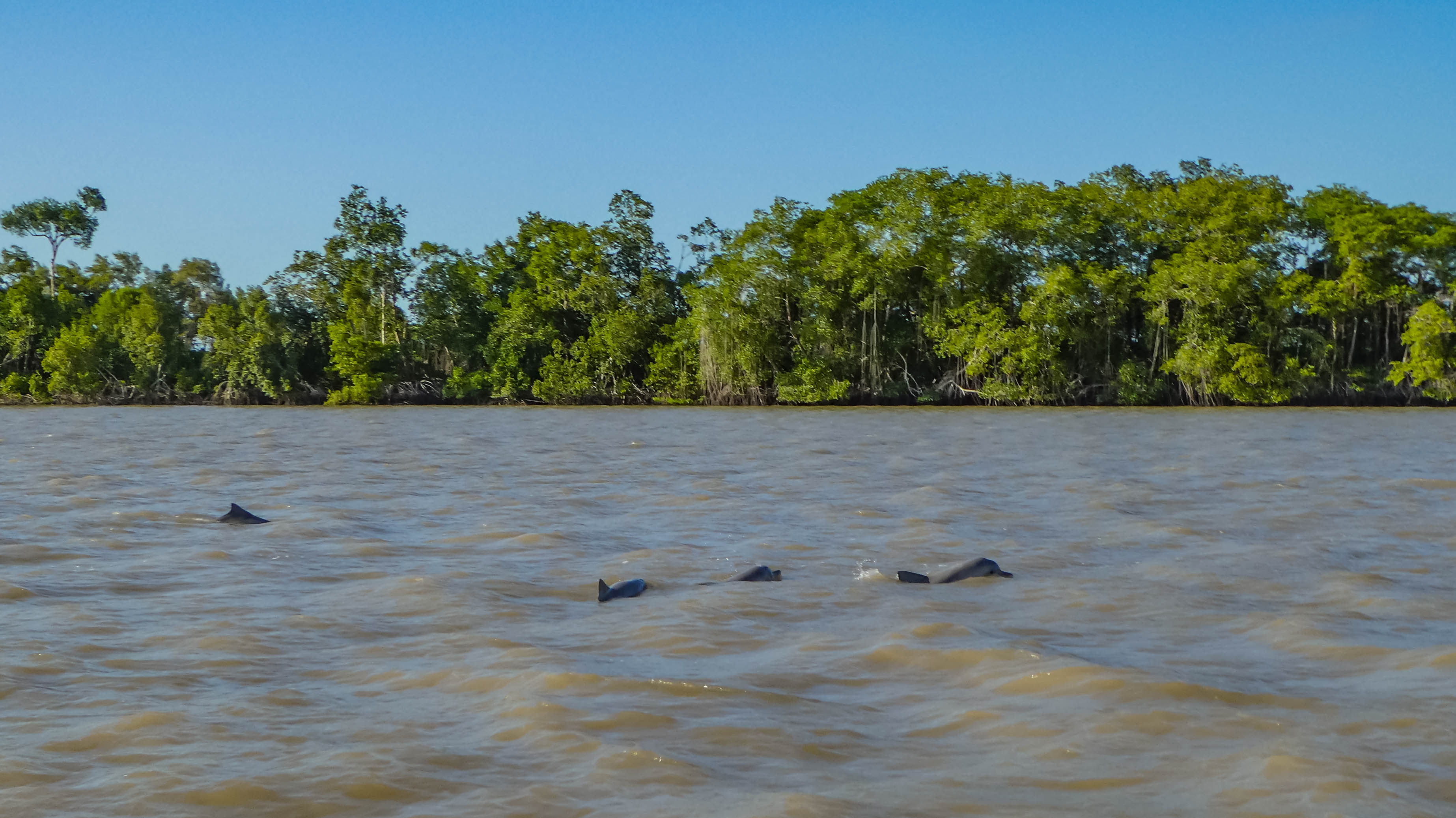 Dolphins spotted during the Dolphin and Sunset tour on the Commewijne river